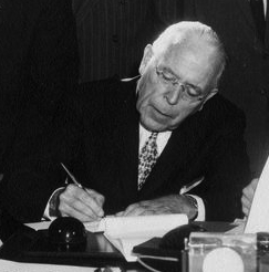 President John F. Kennedy and Others at the Signing of Bill H.J. 225 Public Law 87328, the Interstate Federal Compact for the Delaware River Basin